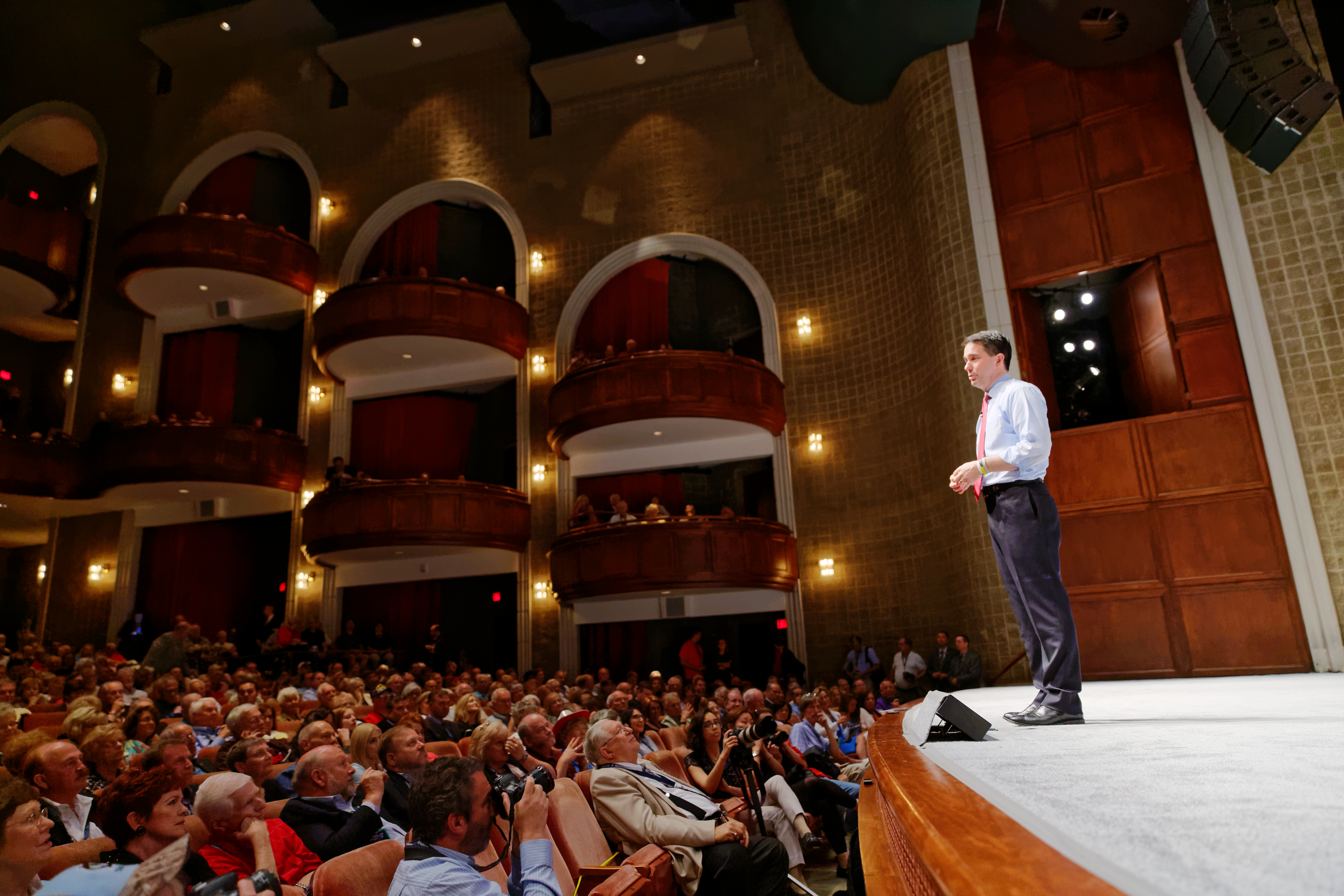 Scott Kevin Walker (born November 2, 1967) is an American Republican politician who is the 45th Governor of Wisconsin. He is a two-term Governor, elected in 2010 and 2014, who also defeated an effort to recall him in 2012. Walker began his political career in the state assembly, serving from 1993–2002. After the 2002 resignation of Tom Ament as Executive of Milwaukee County, Walker won the special election to fill the seat, which he held from 2002 to 2010. Walker was elected governor of Wisconsin in 2010, defeating the Democratic nominee, Milwaukee Mayor Tom Barrett. After being sworn into office in 2011, Walker introduced a budget repair plan which limited many collective bargaining powers for most public employees. The legislation led to significant protests at the Wisconsin State Capitol and an effort to recall Walker. In June 2012, Walker faced Barrett in Wisconsin's only gubernatorial recall election. After emerging as the winner, Walker became the only governor in the U.S. to date to win a gubernatorial recall election. Walker is seen by many as a potential candidate for the GOP's nomination in the 2016 presidential election, having formed a 527 organization in January of 2015.